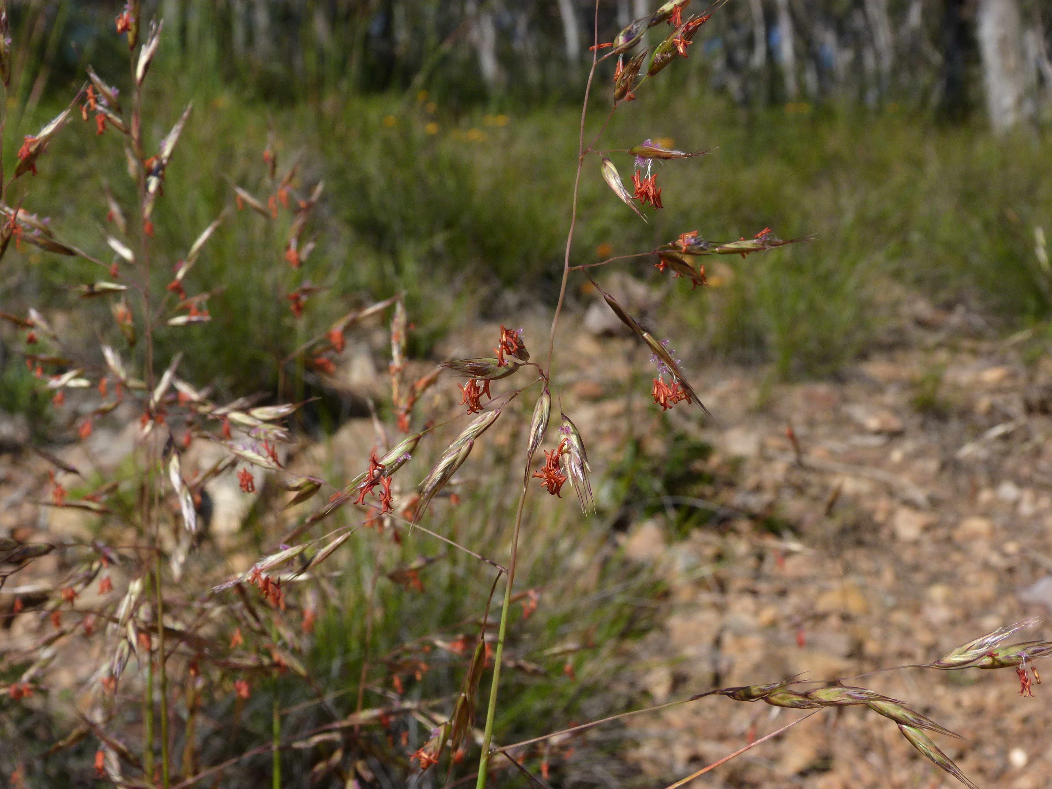 Joycea pallida (R.Br.) H.P.Linder, Black Mountain, Canberra, ACT, 12 November 2010